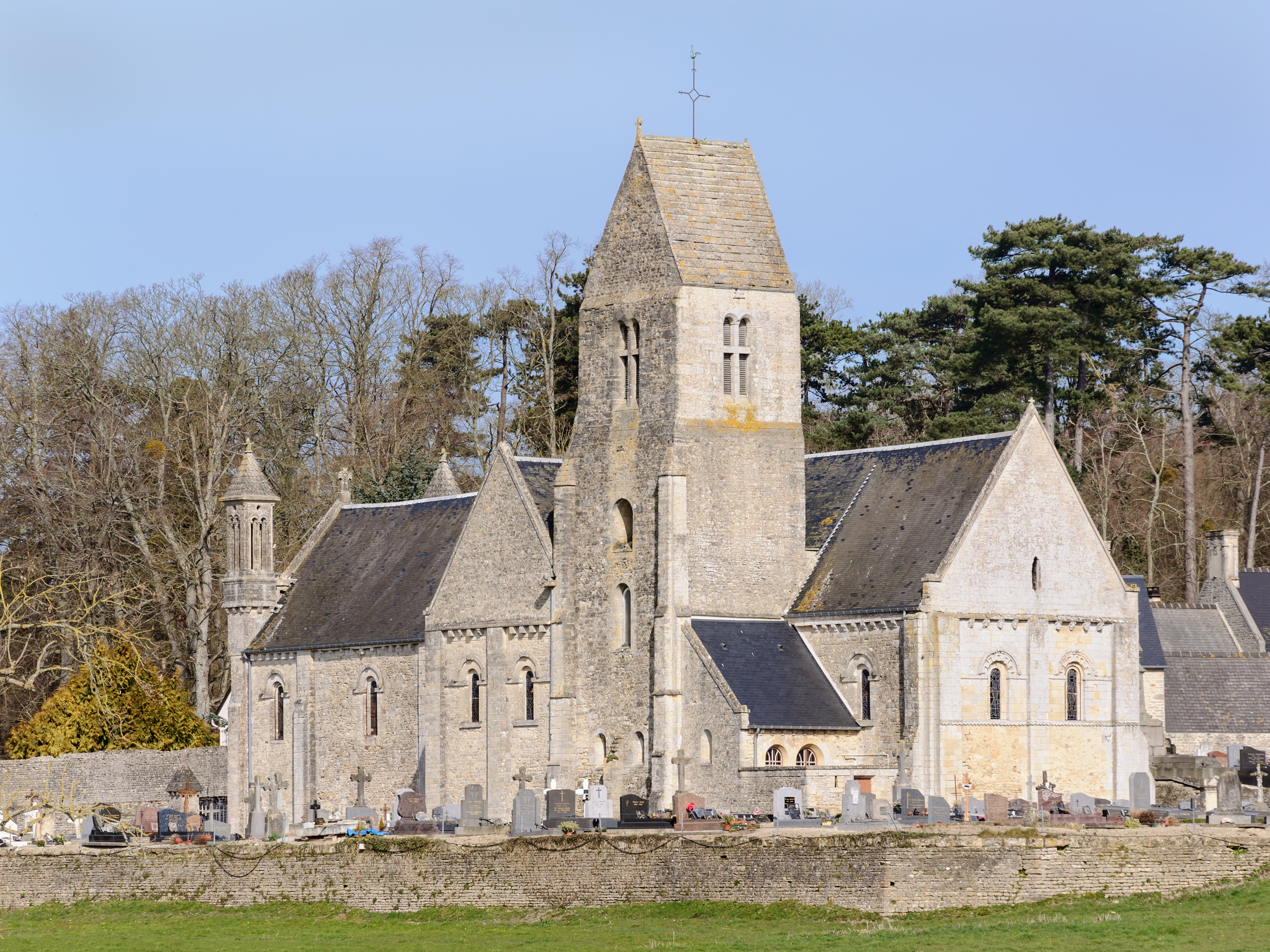 Saint-Aubin church in Vaux-sur-Aure, Calvados, Basse-Normandie, France.